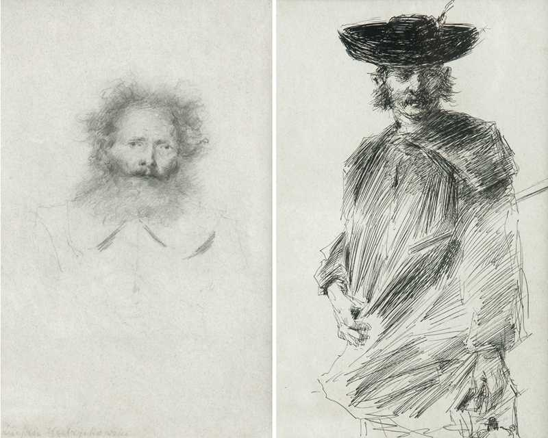 Double-sided polish drawings of Lucjan Wędrychowski.